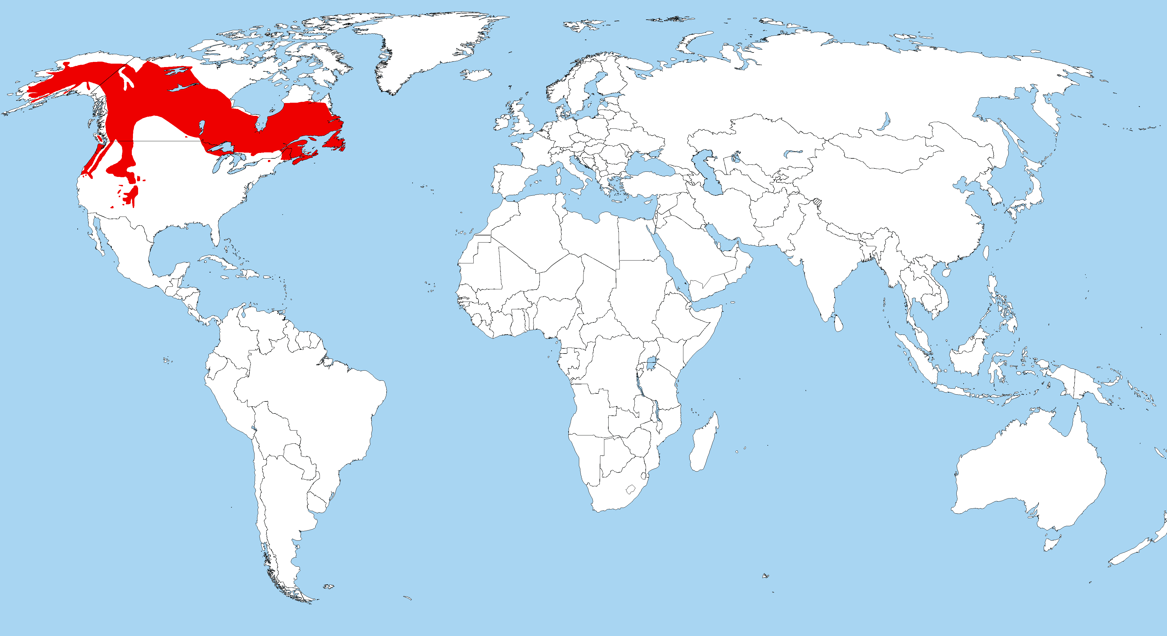 A range map of the Gray Jay (Perisoreus canadensis) drawn onto a Wikipedia blank map template. Range information was obtained from the Gray Jay entry in The Birds of North America, 1993.